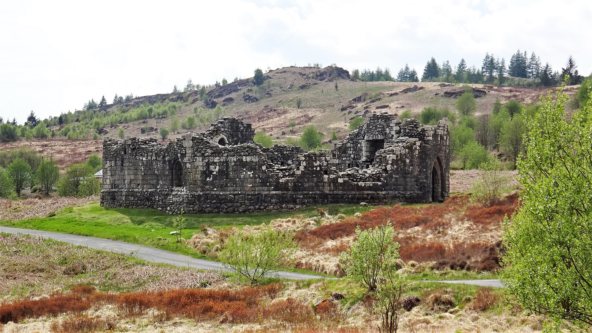 Balliol or Loch Doon Castle, East Ayrshire, Scotland. Moved here in 1935 from Castle Island due to the hydro-electric scheme.